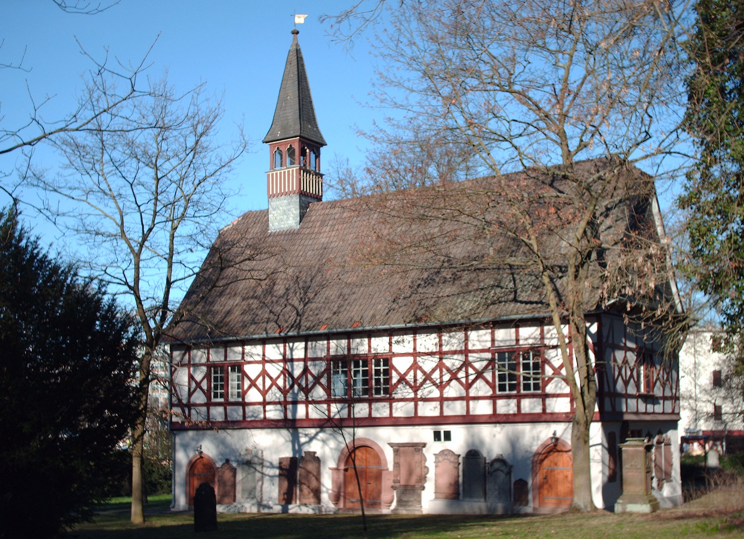 Chapel at Old Cemetery, Gießen, Germany check usage